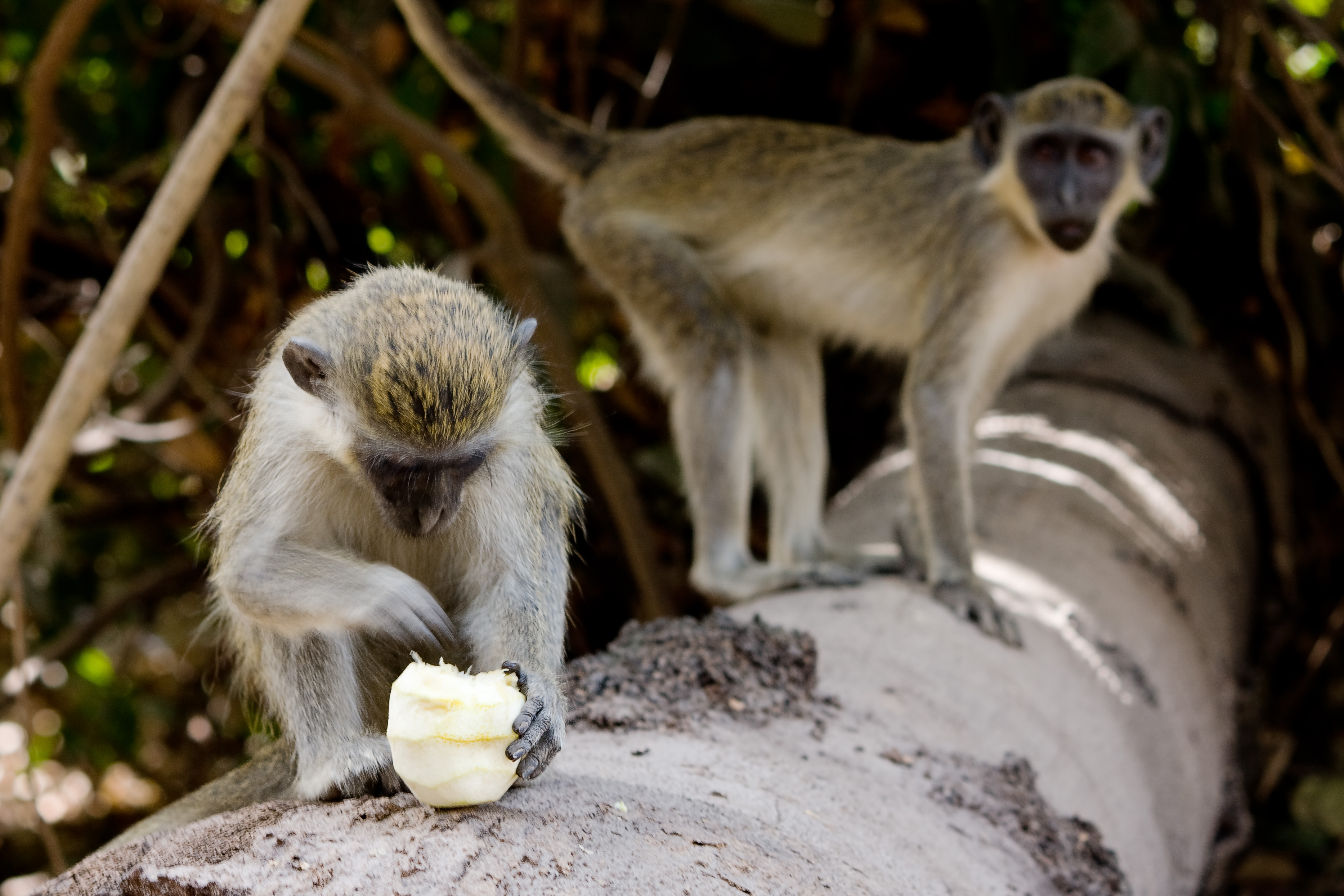 Monkey eating an orange in Abuko Nature Reserve/The Gambia